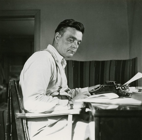 Photograph of the Finnish writer Pentti Haanpää (1905–1955).